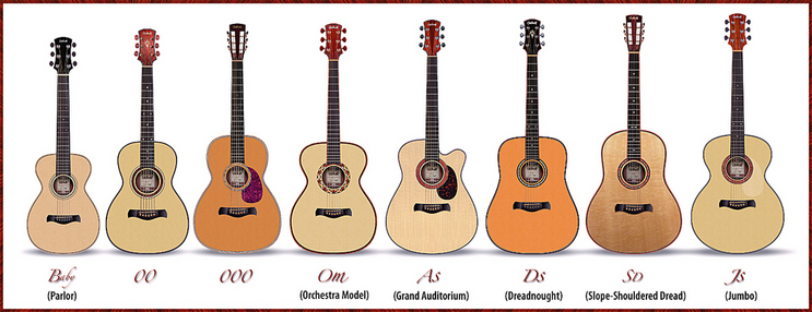 A size comparison chart of guitars Drawn by Kevin A